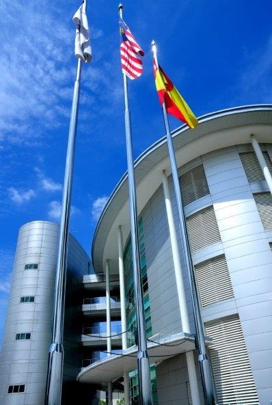 This building houses the President;s Office, Vice Presidents' offices and the administration offices.